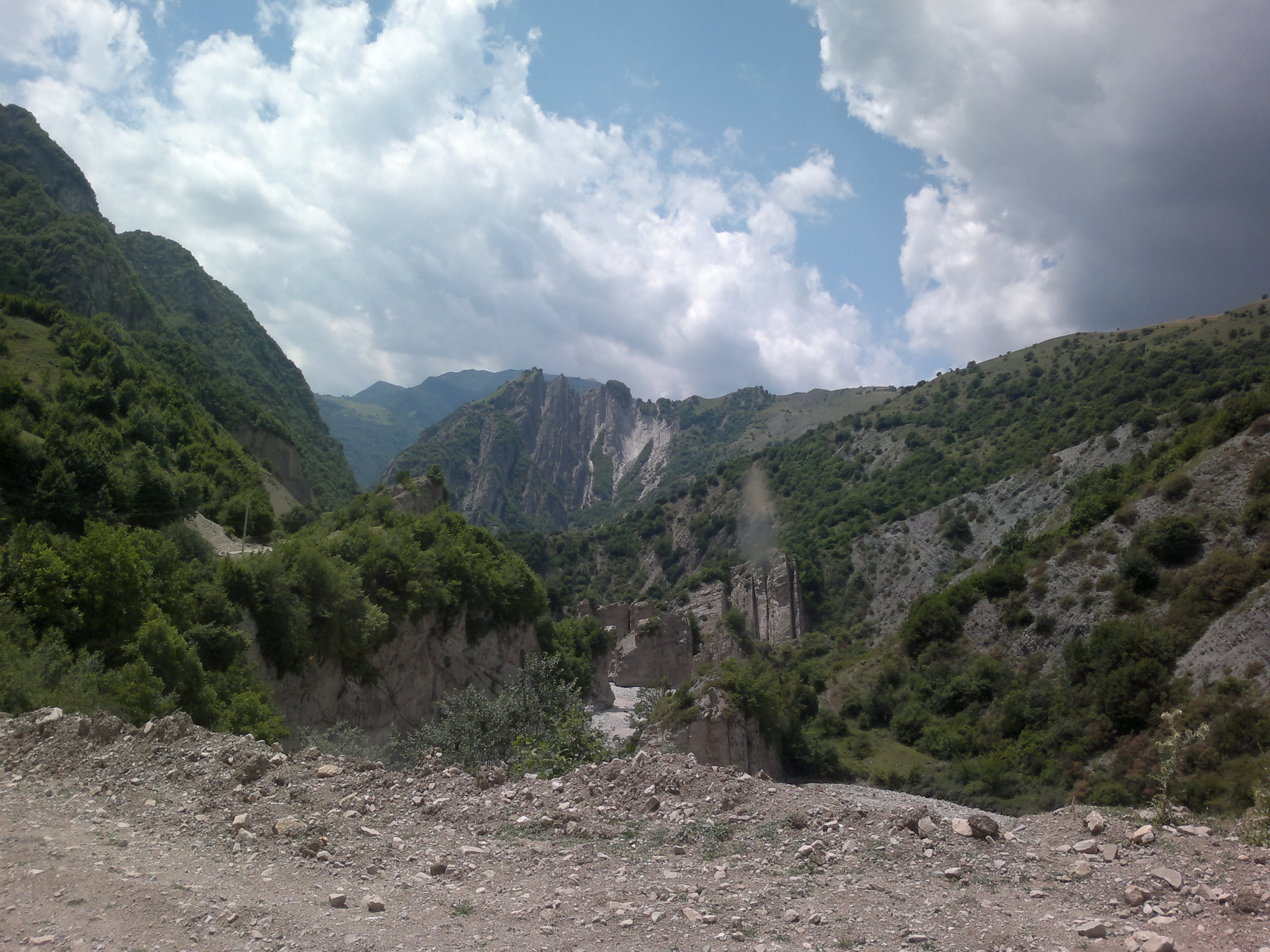 Nature of Ismailli Rayon